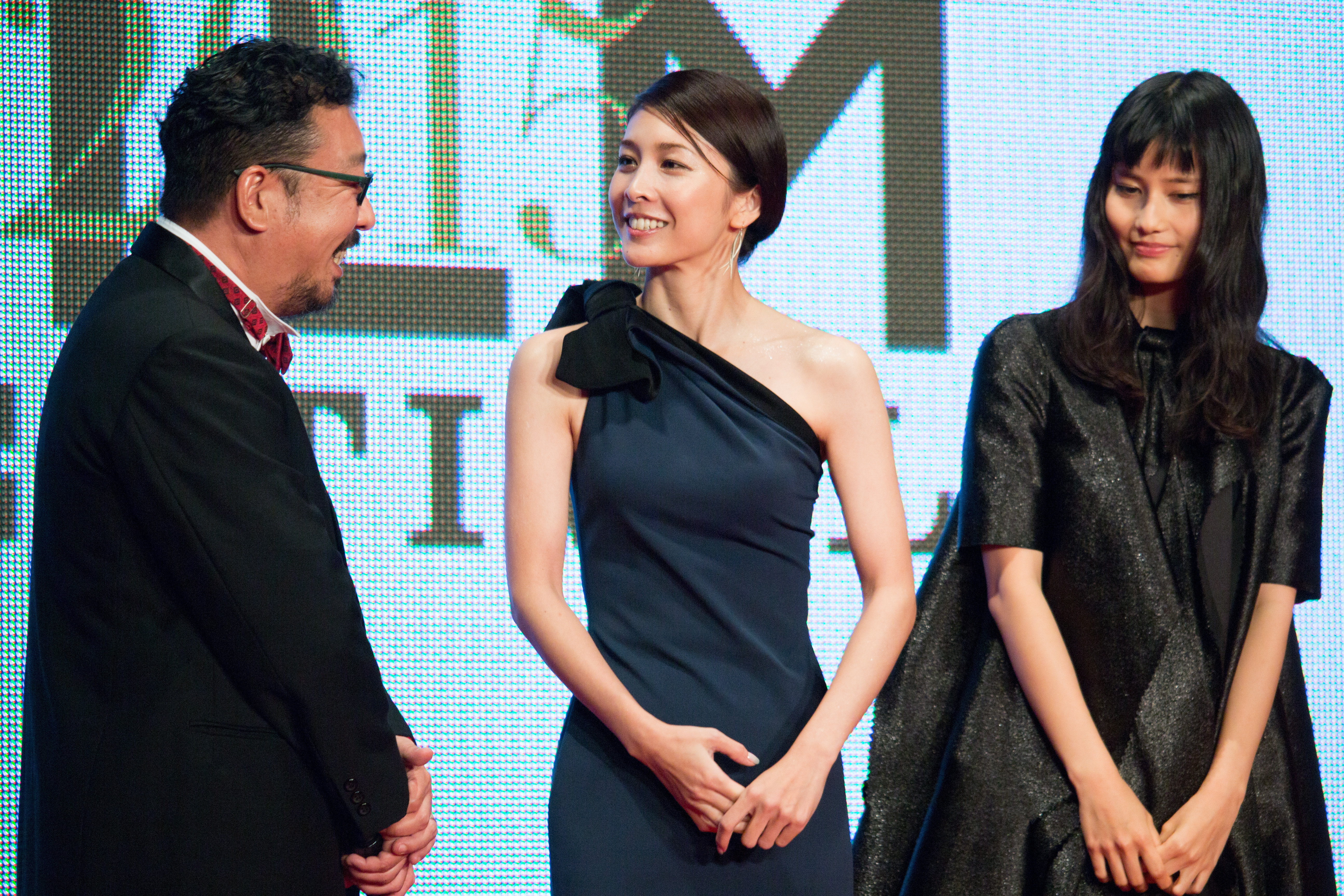 Nakamura Yoshihiro, Takeuchi Yuko & Hashimoto Ai "The Inerasable" at Opening Ceremony of the 28th Tokyo International Film Festival